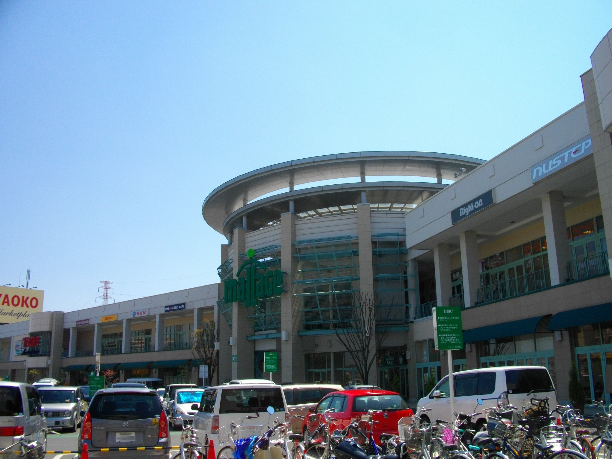 Mallage Kashiwa